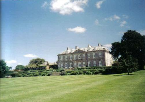 I, Owen Cook, took this picture in 1995. Antony, Cornwall.